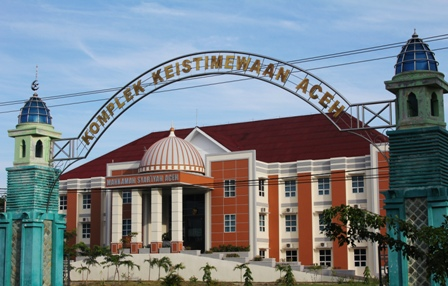 The Aceh Sharia courts building